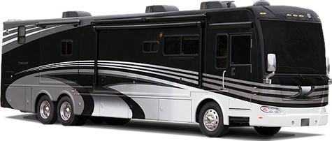 Example of a US built 45 foot Class A Motorhome. Classified as a Class A Diesel Pusher with a Tag Axle chassis (2012 Thor Motor Coach Tuscany Luxury Motorhome)